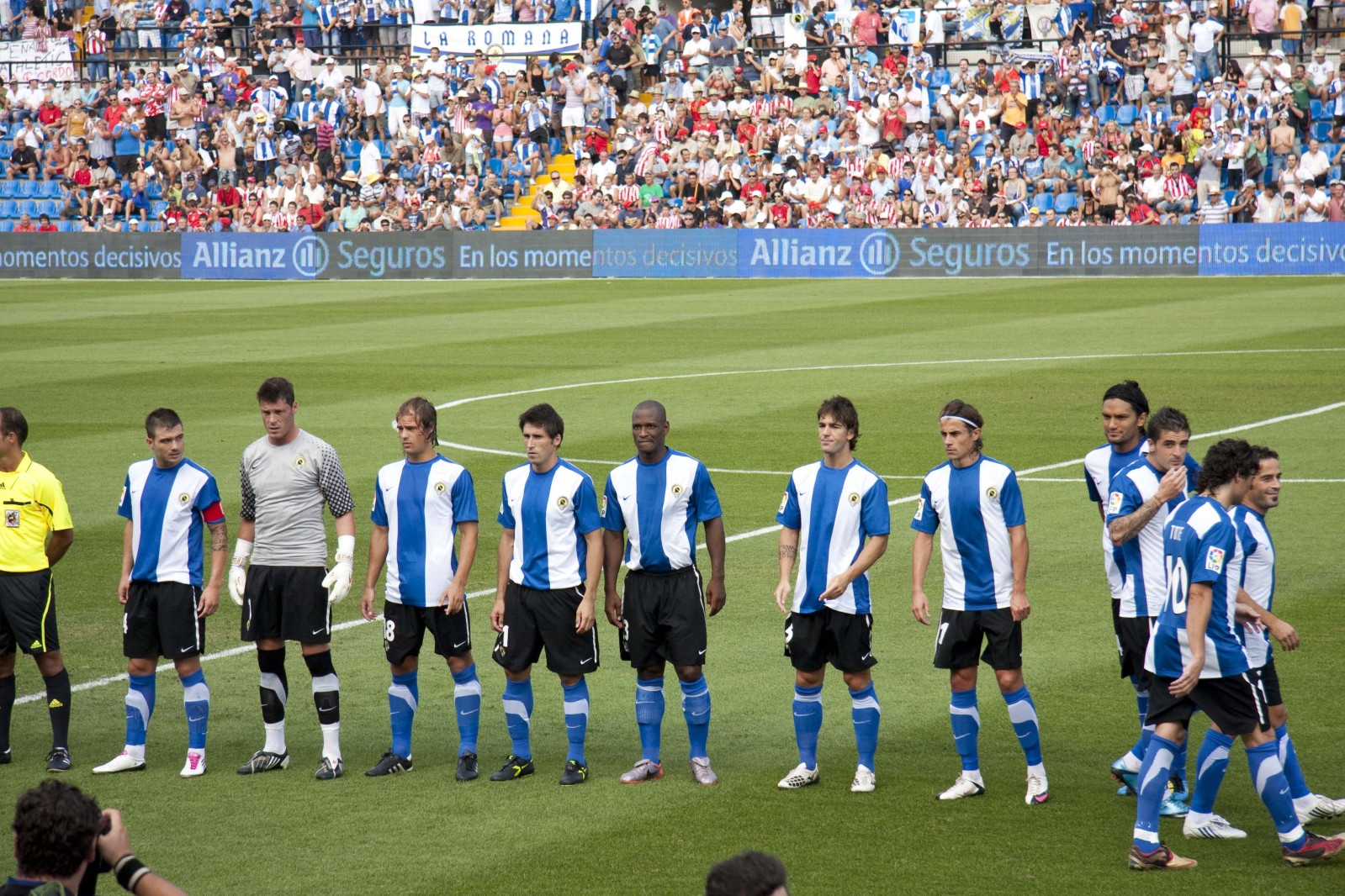 Hércules lineup on the eve of the first game of the season 2010/11, concerning the encounter between Hércules and Athletic Bilbao played at the José Rico Pérez Stadium.